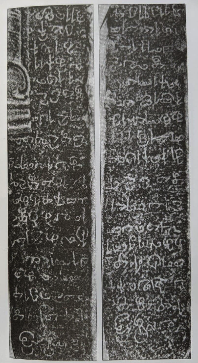 Kayts fort chola inscriptions